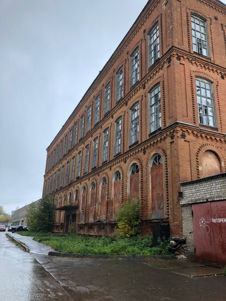 Rodniki